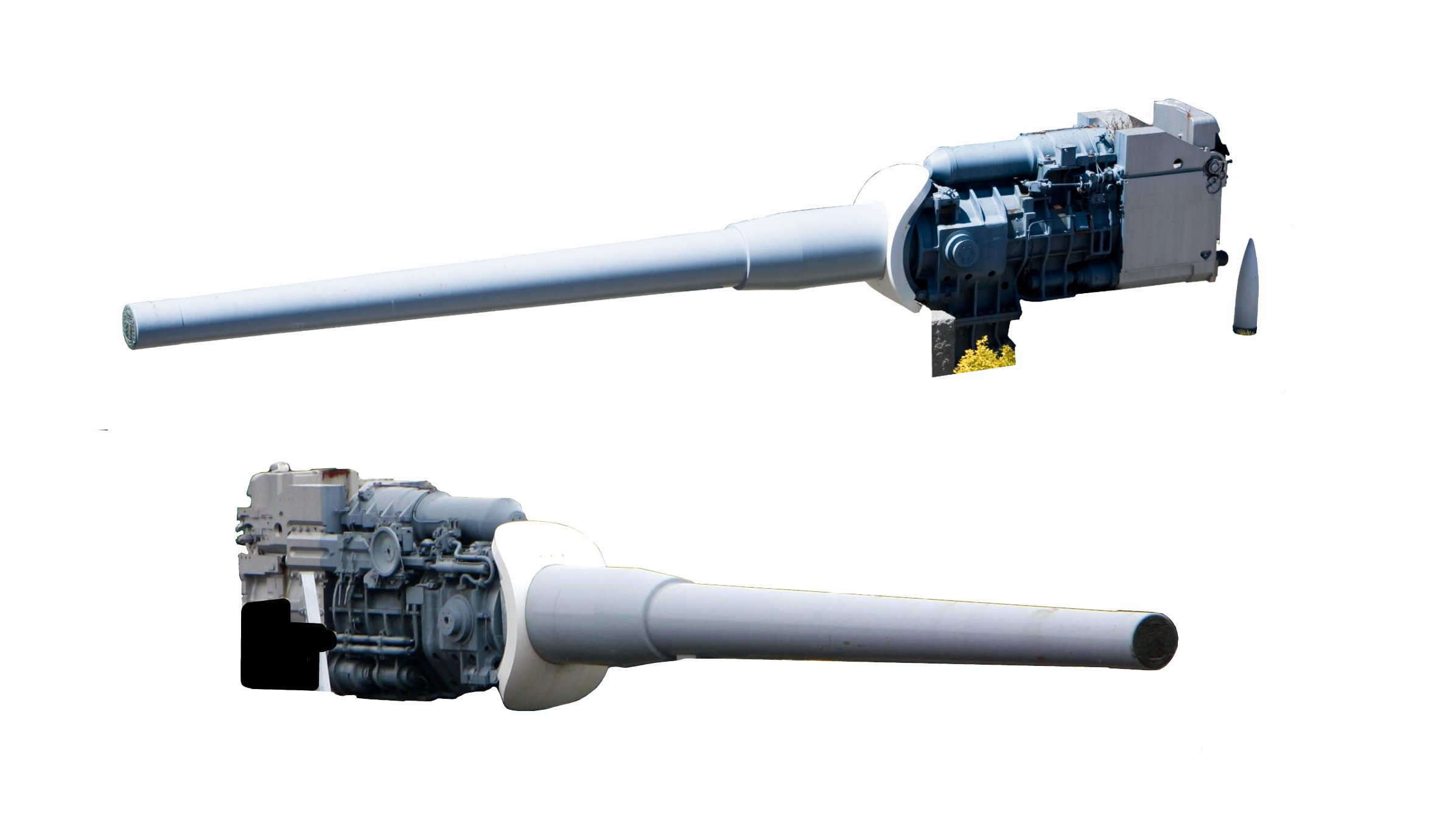 380mm/45 Modèle 1935 gun of the Richelieu, on display at the military harbour of Brest, near Recouvrance Bridge